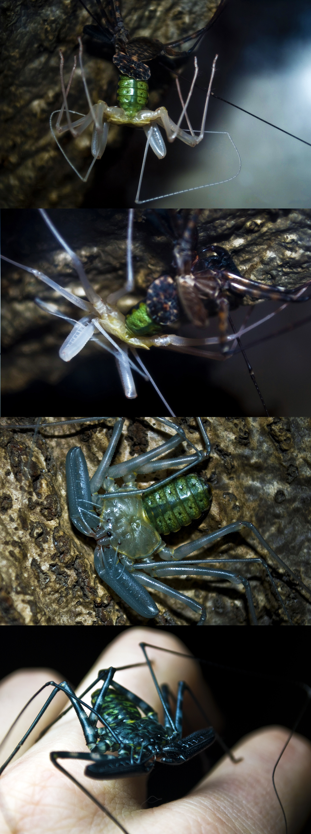 A series of photos depicting the molting process of the tailless whip scorpion, Damon diadema.